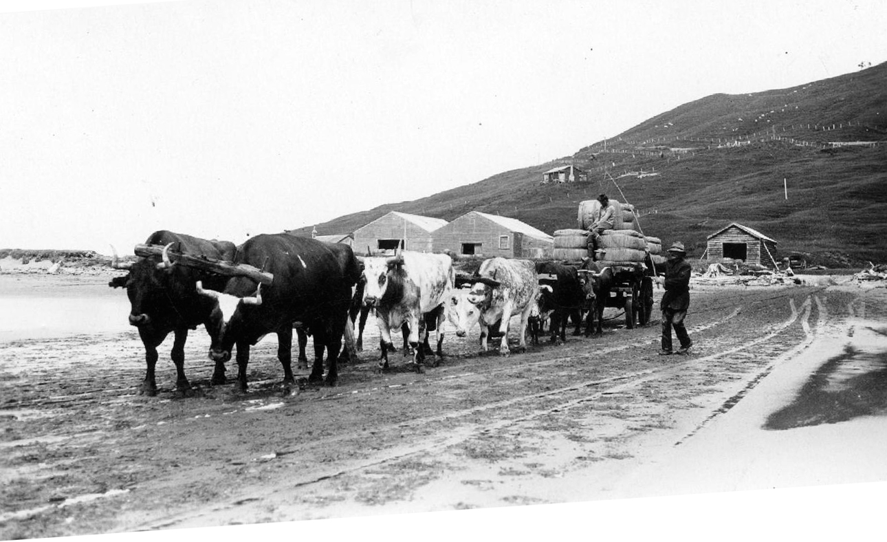 Object Name Bullocks Hauling Wool Bales, Akitio Object Numbers 4113 i, m69/58, 82150 Brief Description A photograph of wool bales on a cart being pulled to the shore by a team of bullocks at Akitio, Wairarapa. The bullocks are being led into the shallows. The wool would then be loaded on boats to be transferred to a ship. In the background the wool sheds and farm land can be seen. Photographer and date unknown. Subject Category Farming/Agriculture/Archive classification Ships and shipping/Transport/Archive classification Sheep farming/Agriculture/Archive classification Transport/Archive classification Community and people/Archive classification Farm buildings/Buildings and structures/Archive classification Subject Period 1890s/19th Century 1900s/20th Century 1910s/20th Century 1920s/20th Century 1930s/20th Century Subject Place Akitio/Wairarapa/North Island/New Zealand Credit Line gifted by Richardson and Company Copyright Out of copyright Photo Caption Collection of Hawke’s Bay Museums Trust, Ruawharo Tā-ū-rangi, 4113 i